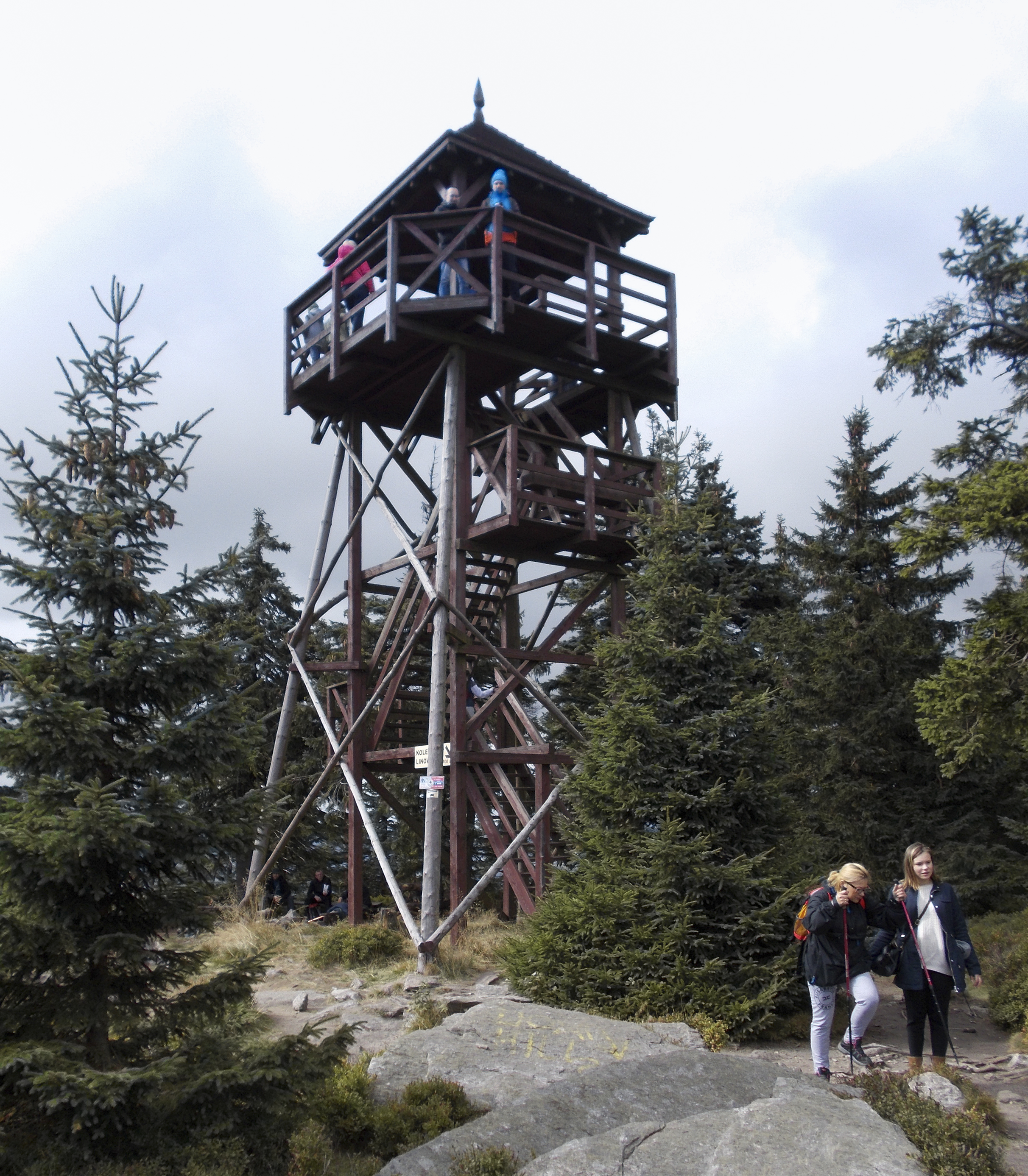 Observation tower on Czarna Góra, Śnieżnik Mountains, Sudetes